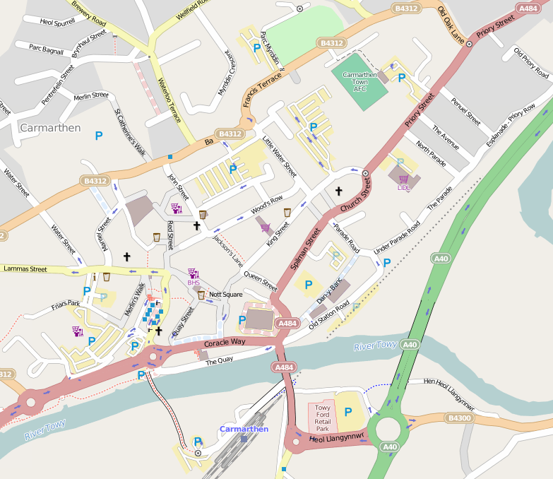 It shows the area around Carmarthen Town AFC / Richmond Park.